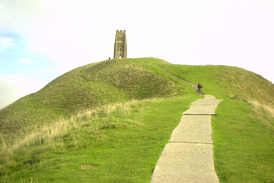 Distant view towards Glastonbury Tor